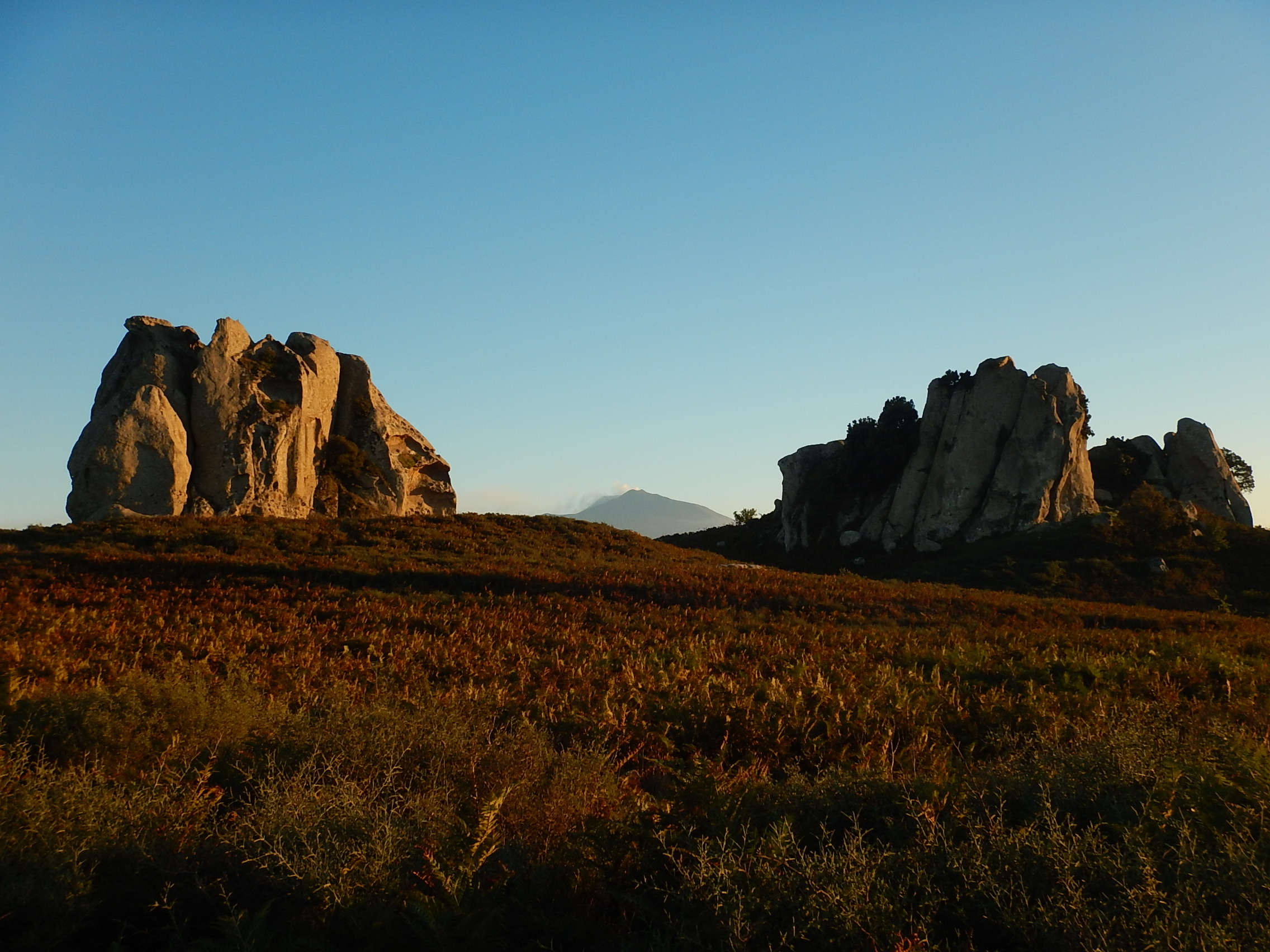 Etna seen from the astronomic site of Argimusco at Montalbano Elicona, Sicily.